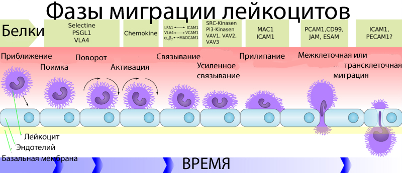 This file was taken from german wikipedia article (Blut-Hirn-Schranke) which was made by user Kuebi = Armin Kübelbeck and LadyofHats under licence Creative Commons Attribution 3.0 Unported. I changed german words in russian with Photoshop